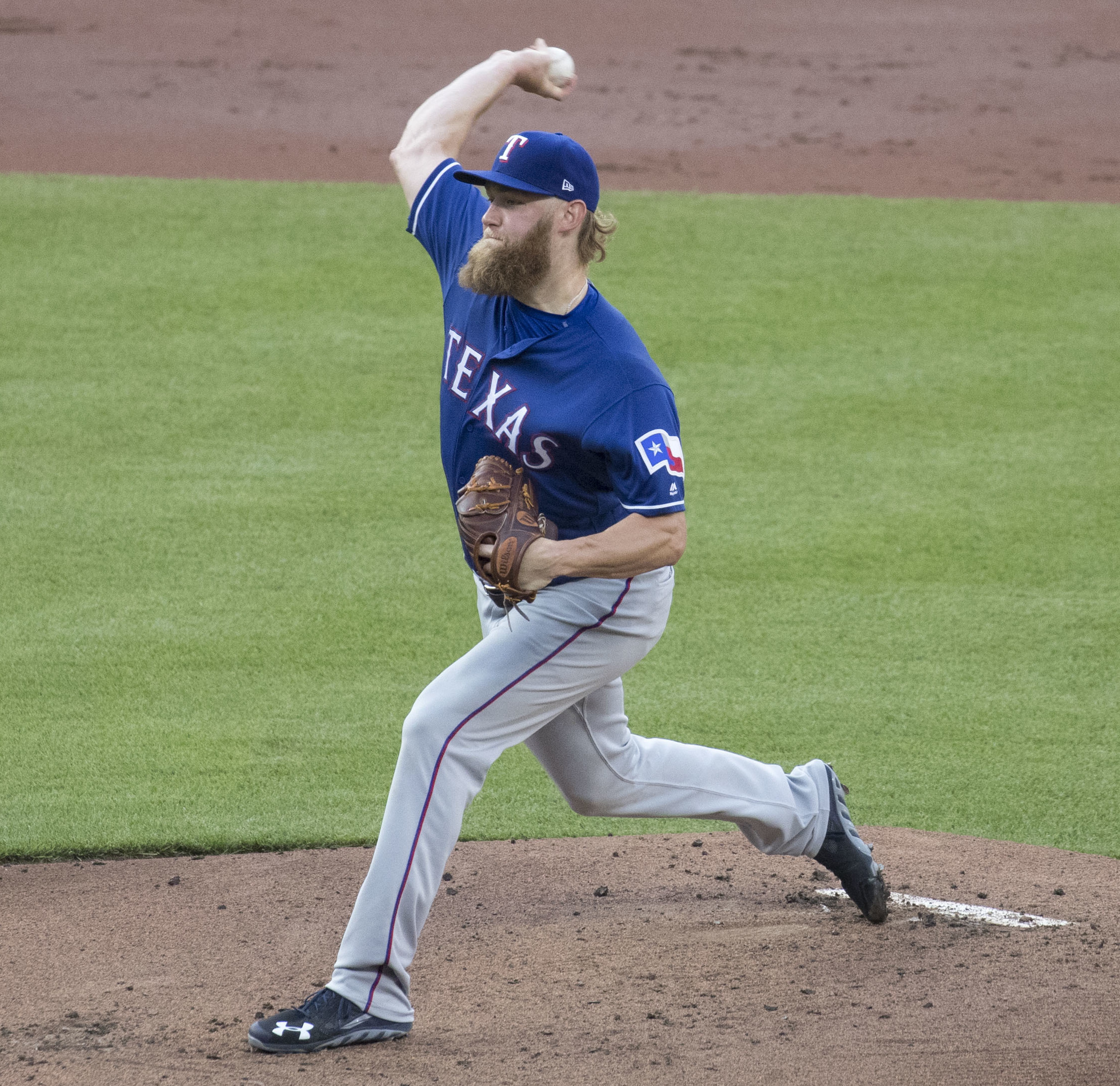 Rangers at Orioles 7/17/17